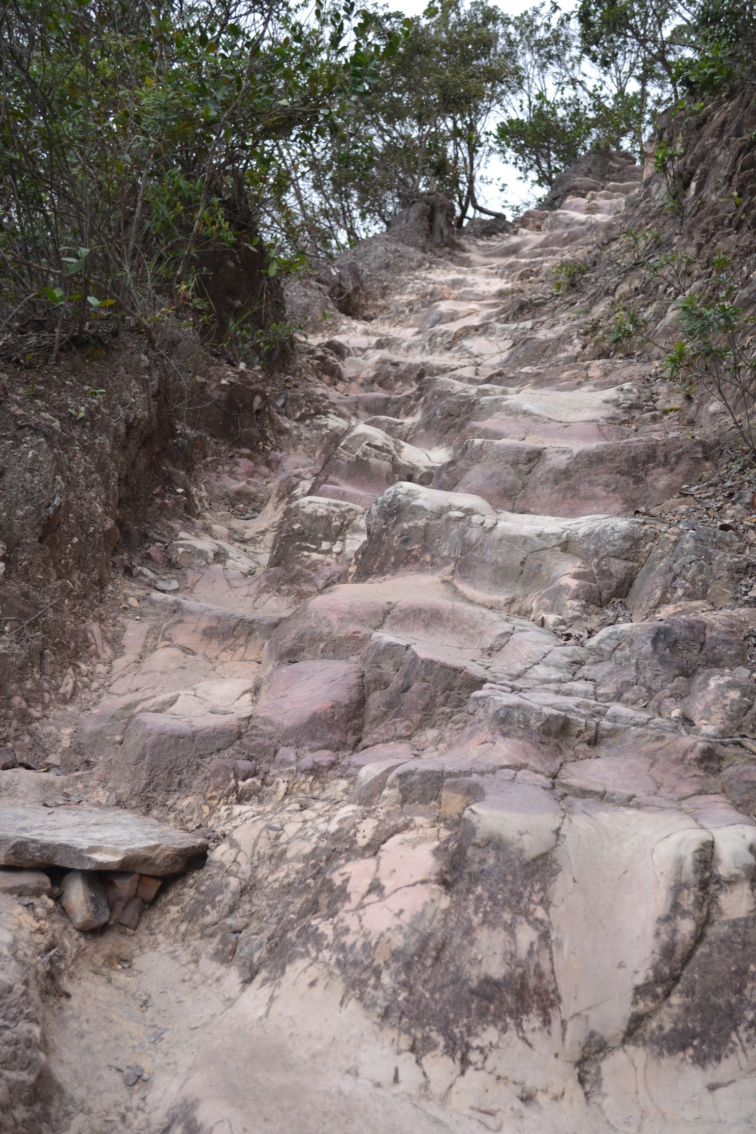 Photo of the soil taken at Chapada Diamantina, Bahia